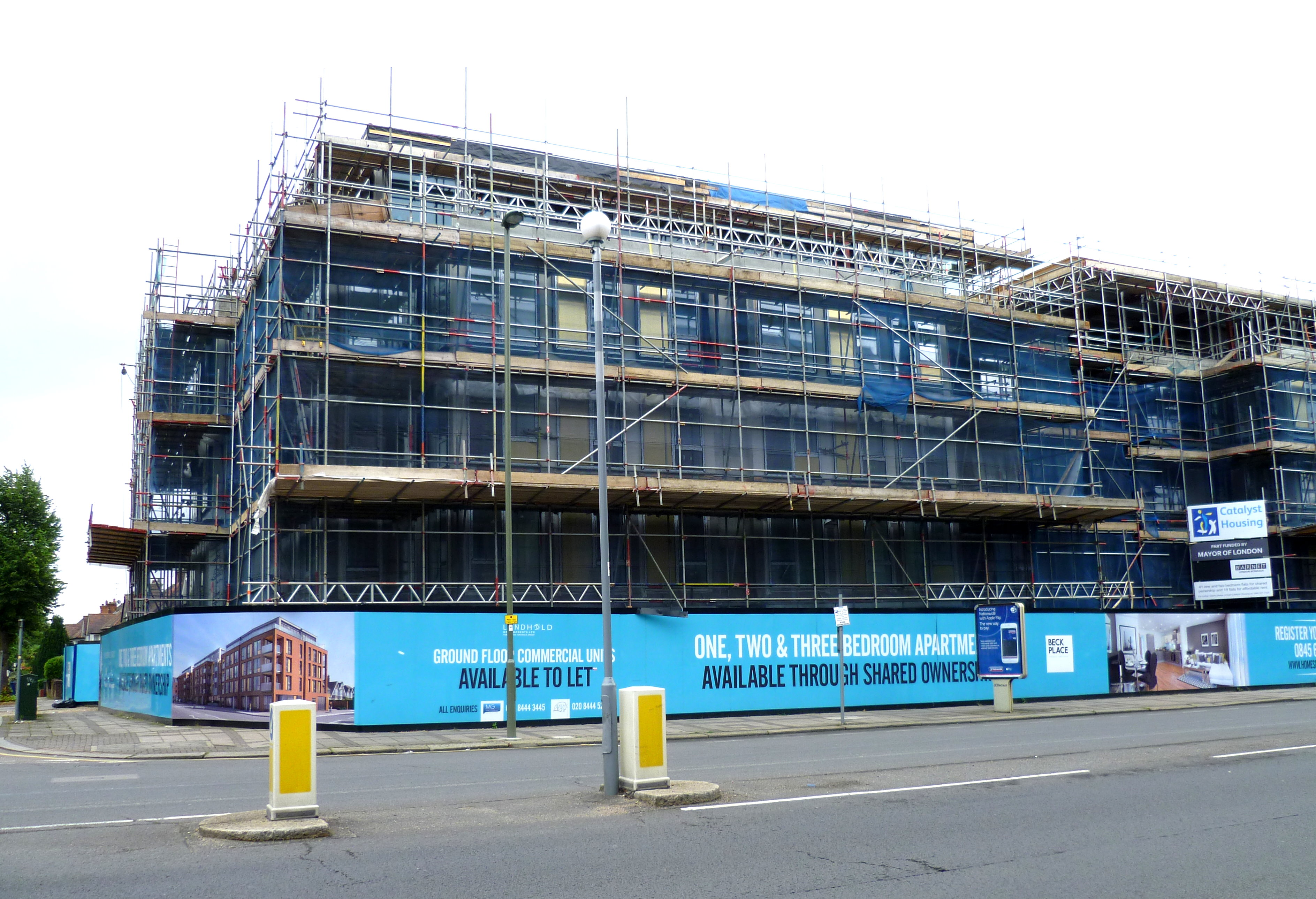 Catalyst Housing project High Road, Whetstone.